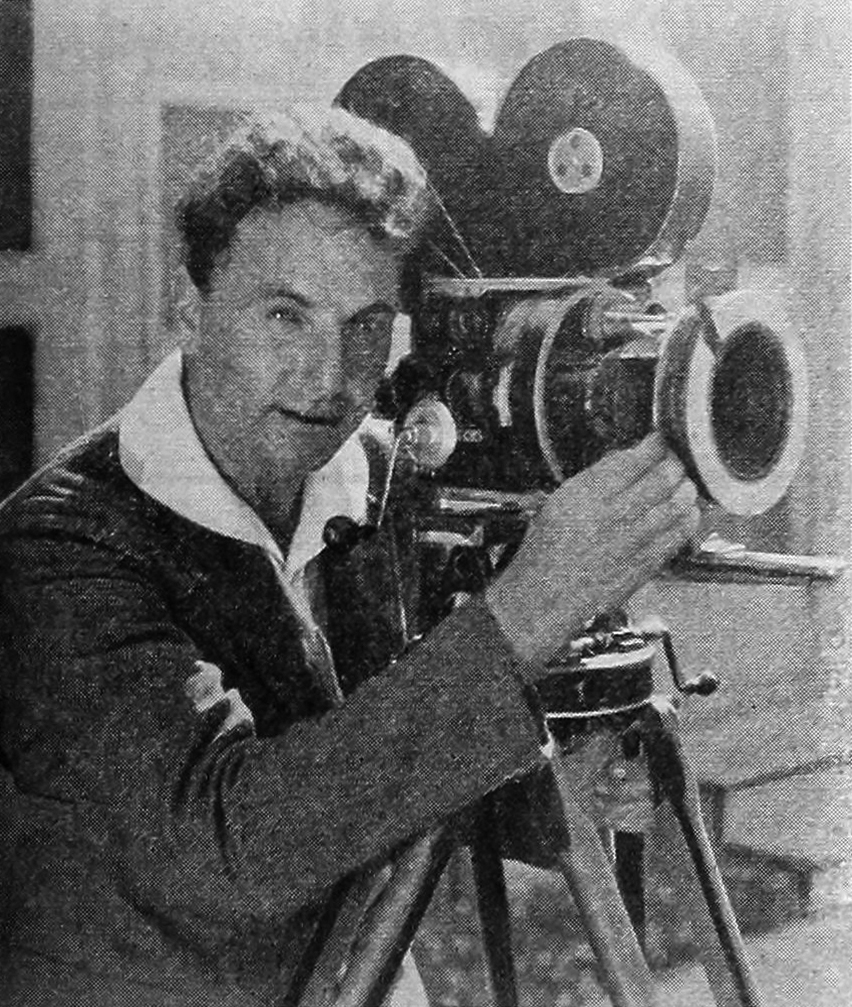 Academy Award-winning American cinematographer Hal Mohr